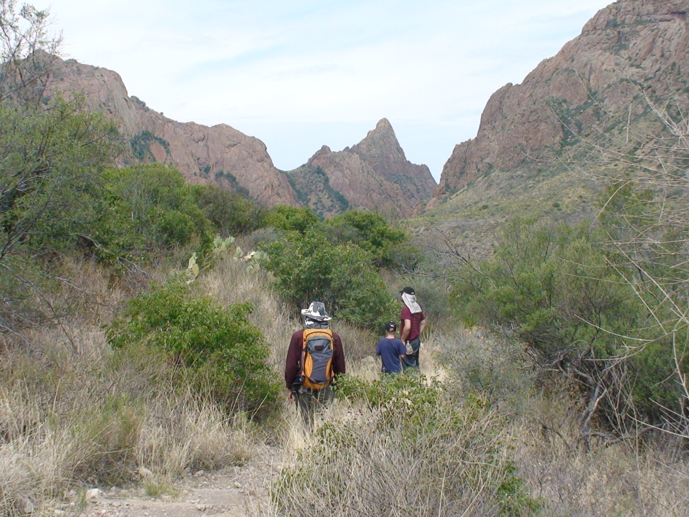 Hikers on the Window Trail in Big Bend National Park.